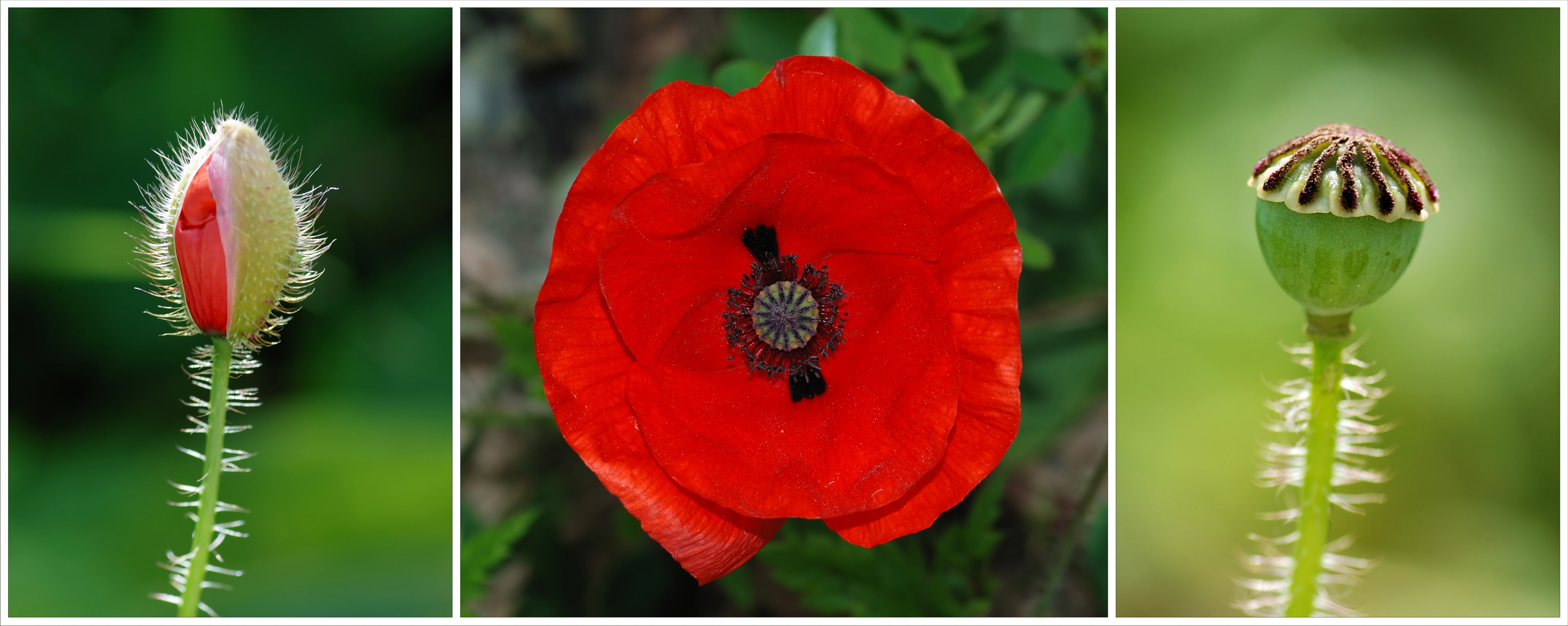 The three stages of a Common Poppy flower. From left to right: bud, flower and capsule.